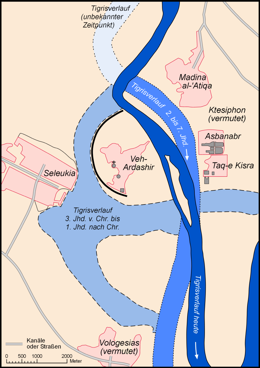 Seleucia/Ktesiphon, archaeological map